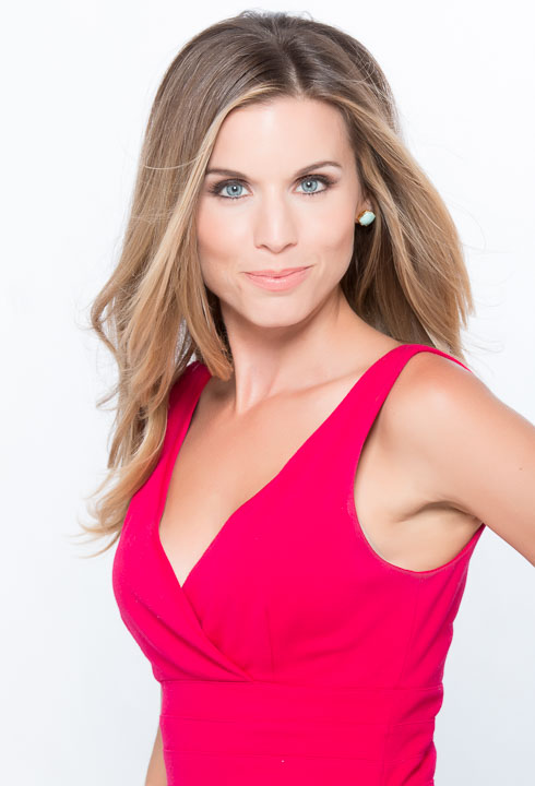 Maria Sansone's official headshot from KTTV FOX 11 in Los Angeles.